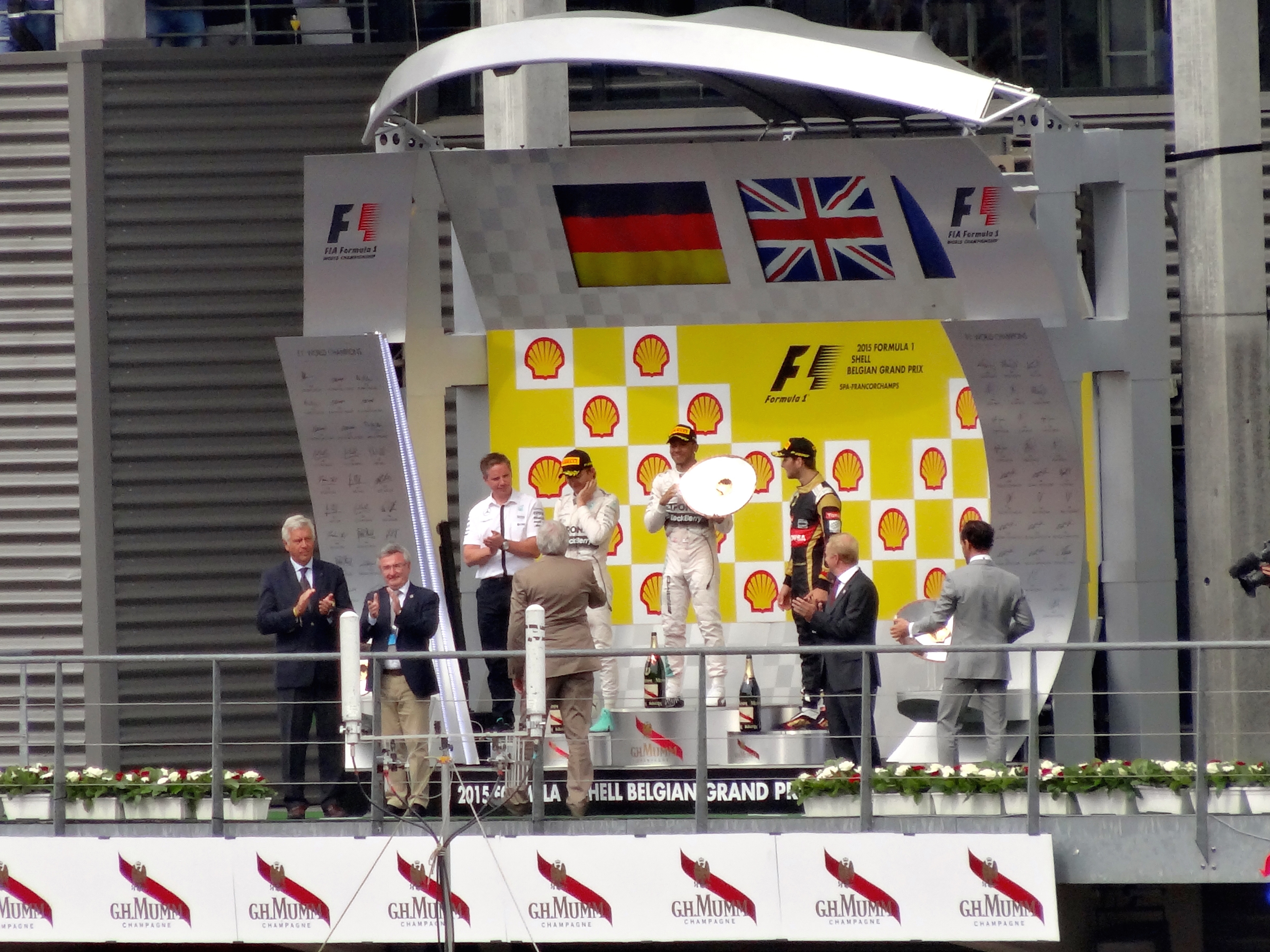 Hamilton win in Spa